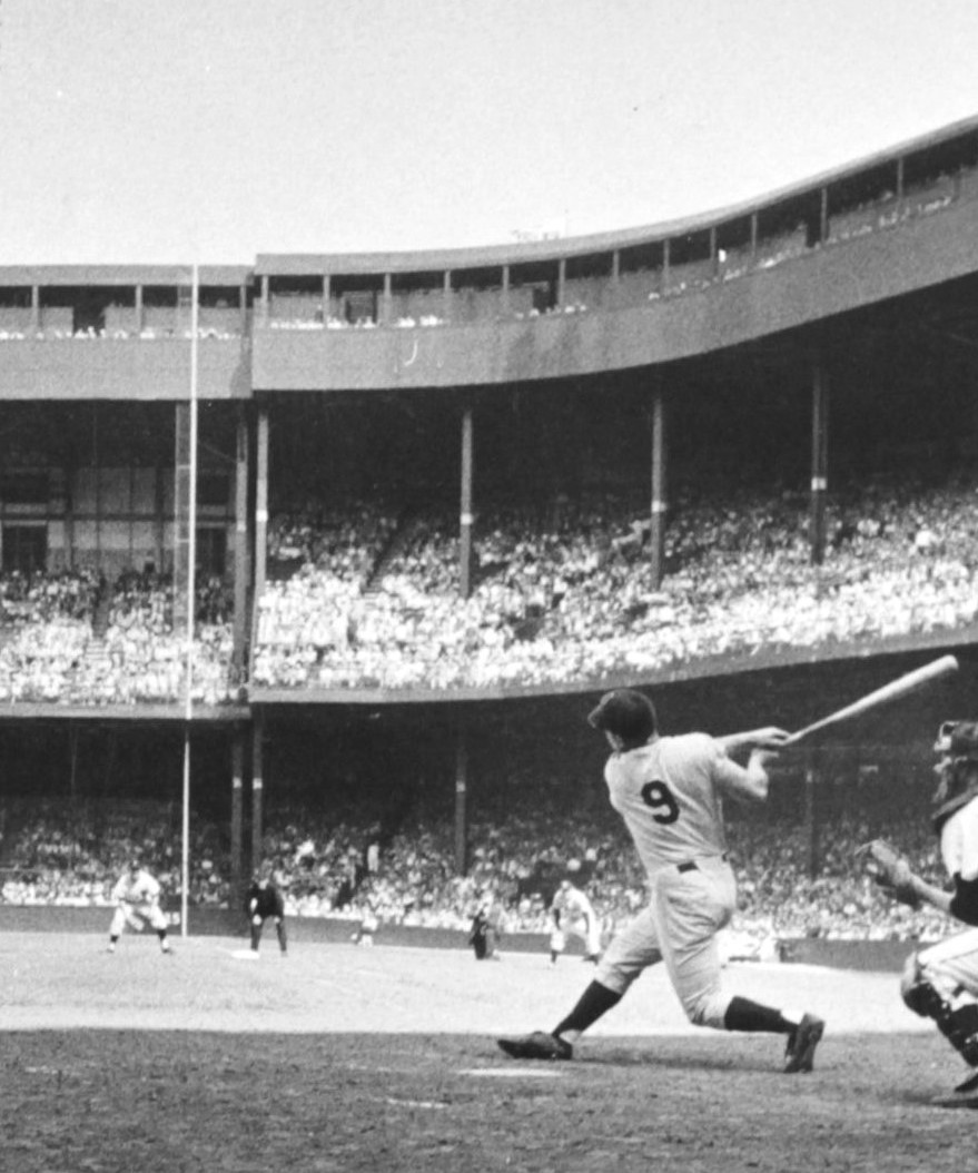 Roger Maris' home run #58, September 17, 1961, at Tiger Stadium in Detroit (12th inning).